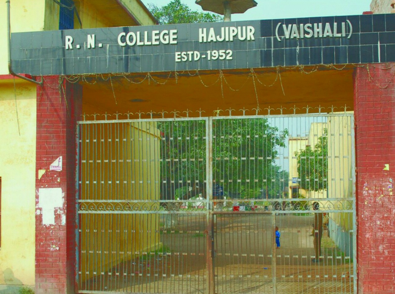 This file is taken and uploaded by me (see user info below ) . This file is used in wikipedia article " Raj narain college,Hajipur,view the main article Raj narain college,Hajipur to know more about this photo.